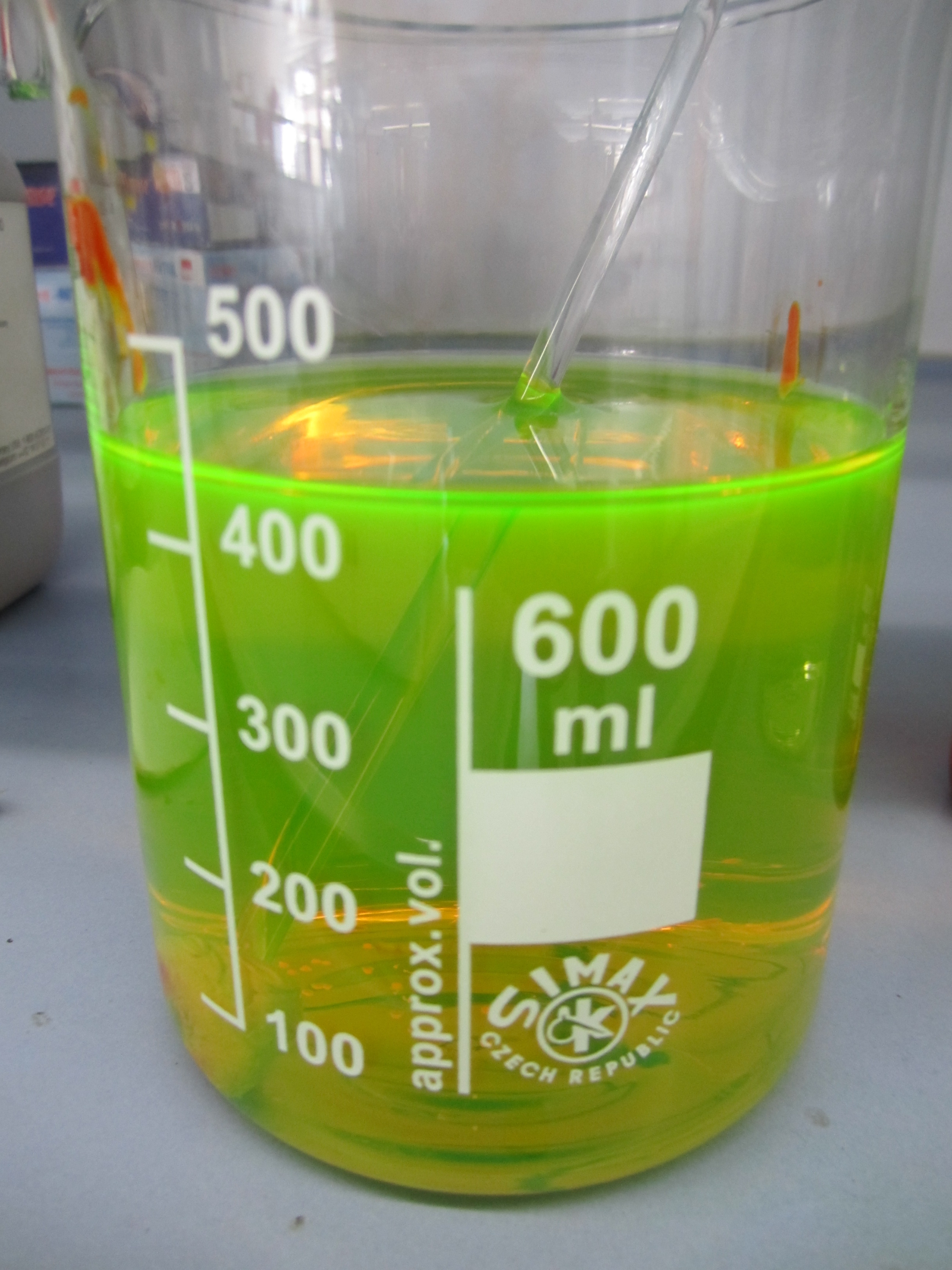 Self-produced fluoresceine